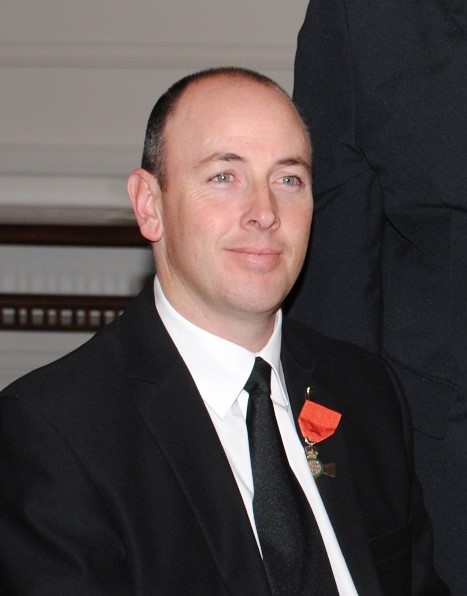 New Zealand sport shooter Michael Johnson pictured after his investiture ceremony